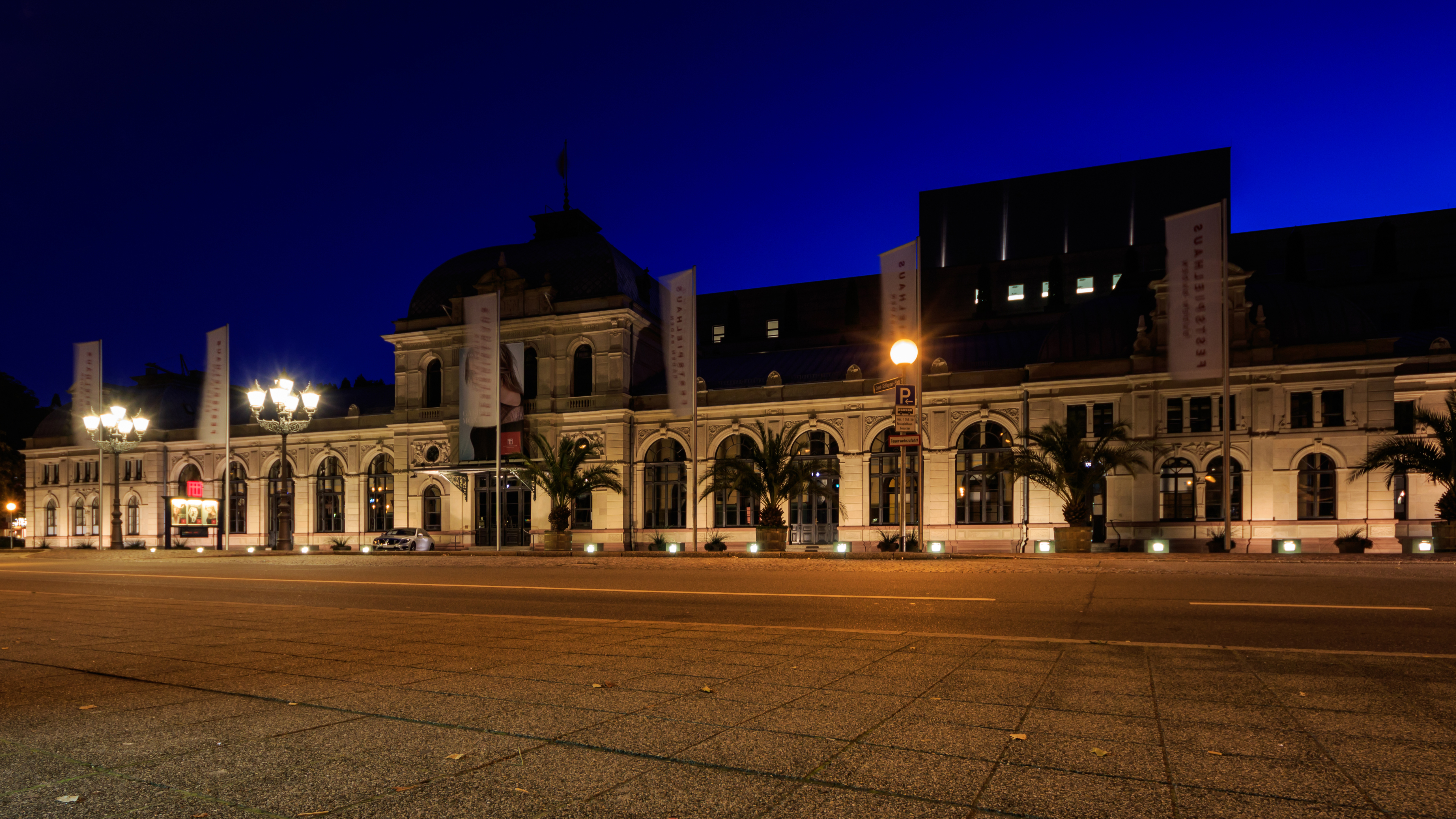 The old railway station (now part of Festspielhaus) in Baden-Baden (BW, Germany).